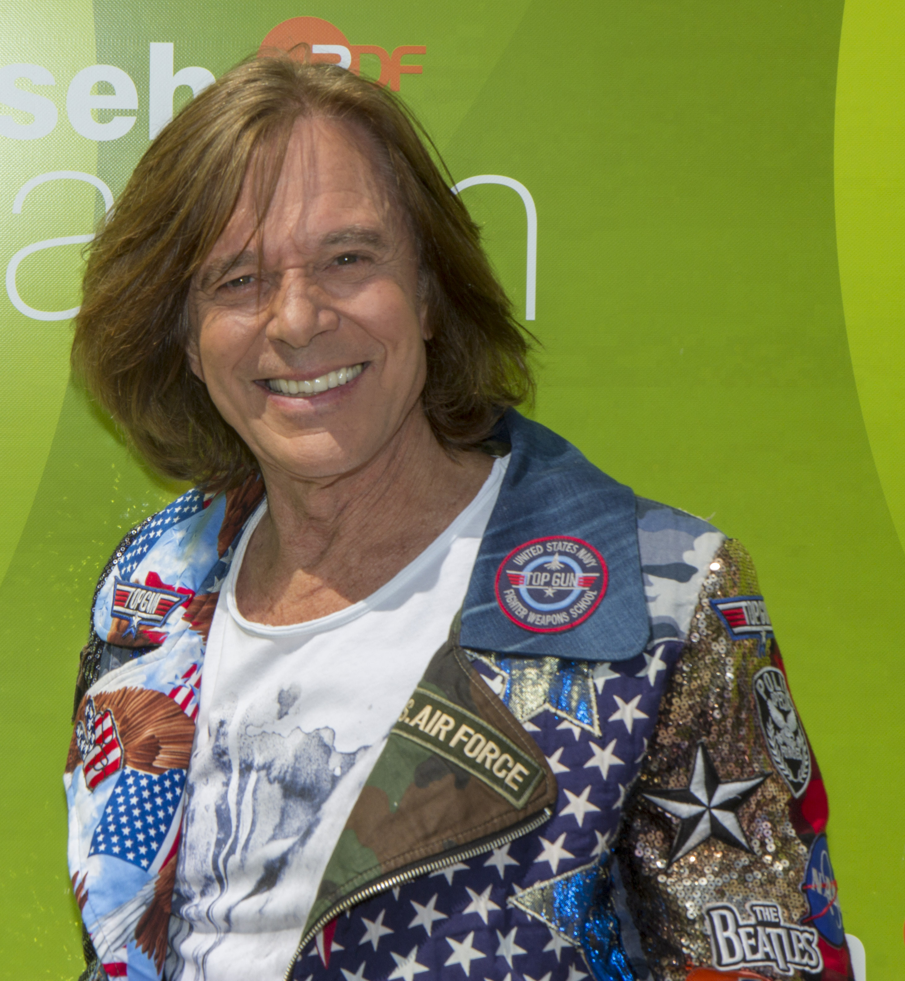 Jürgen Drews: ZDF Fernsehgarten in Mainz.